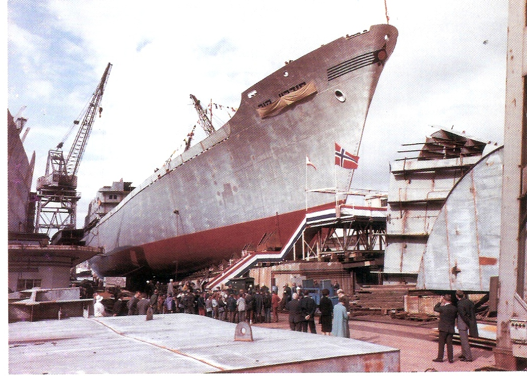 Maritime Fruit Company ship at launching